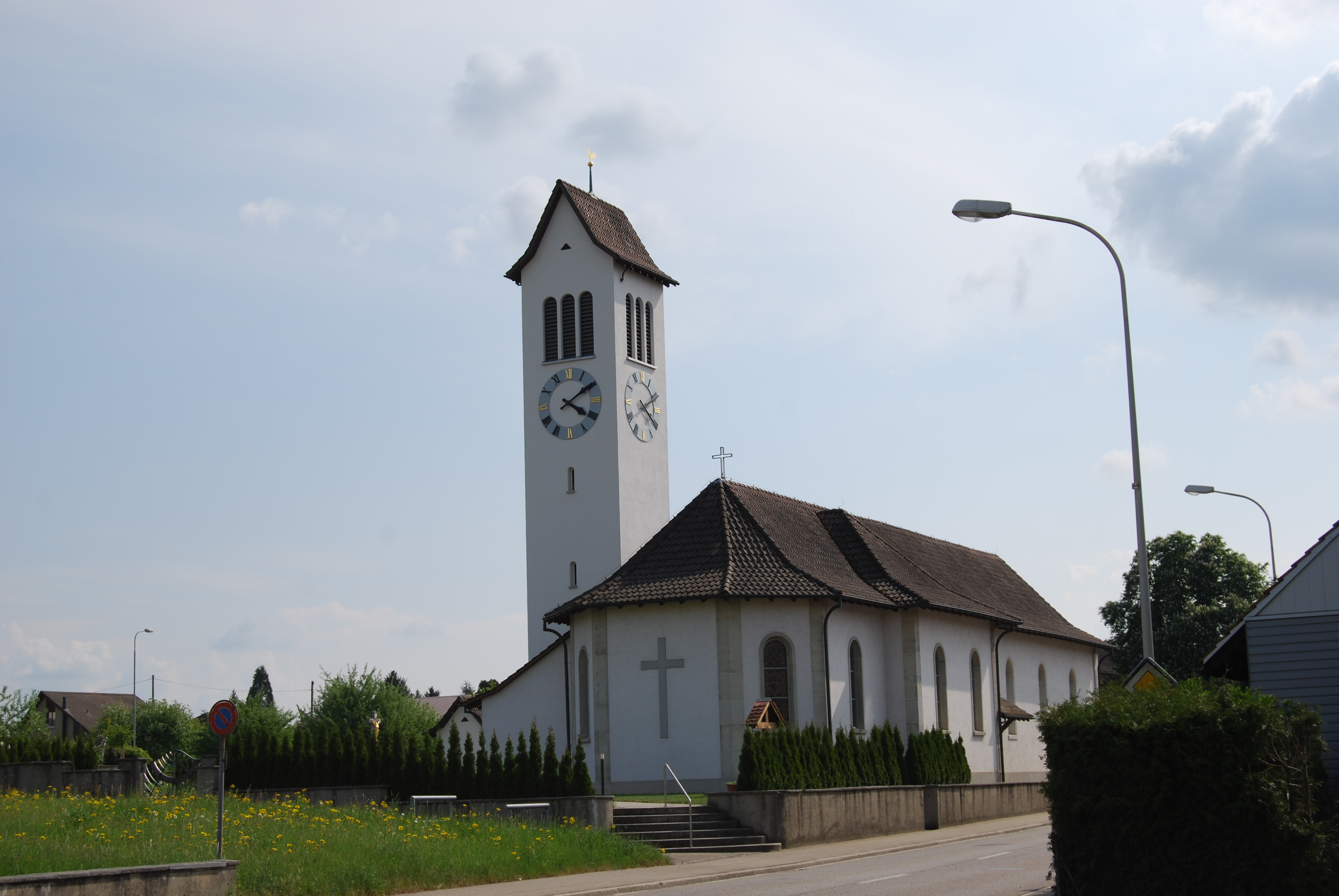 Church of Gunzgen, canton of Solothurn, Switzerland